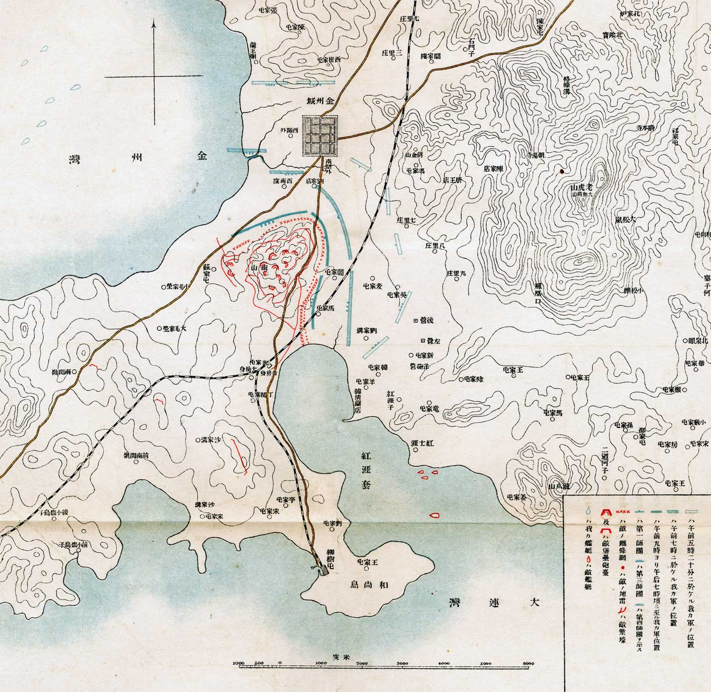 simplified Map of the Attack on Nanshan